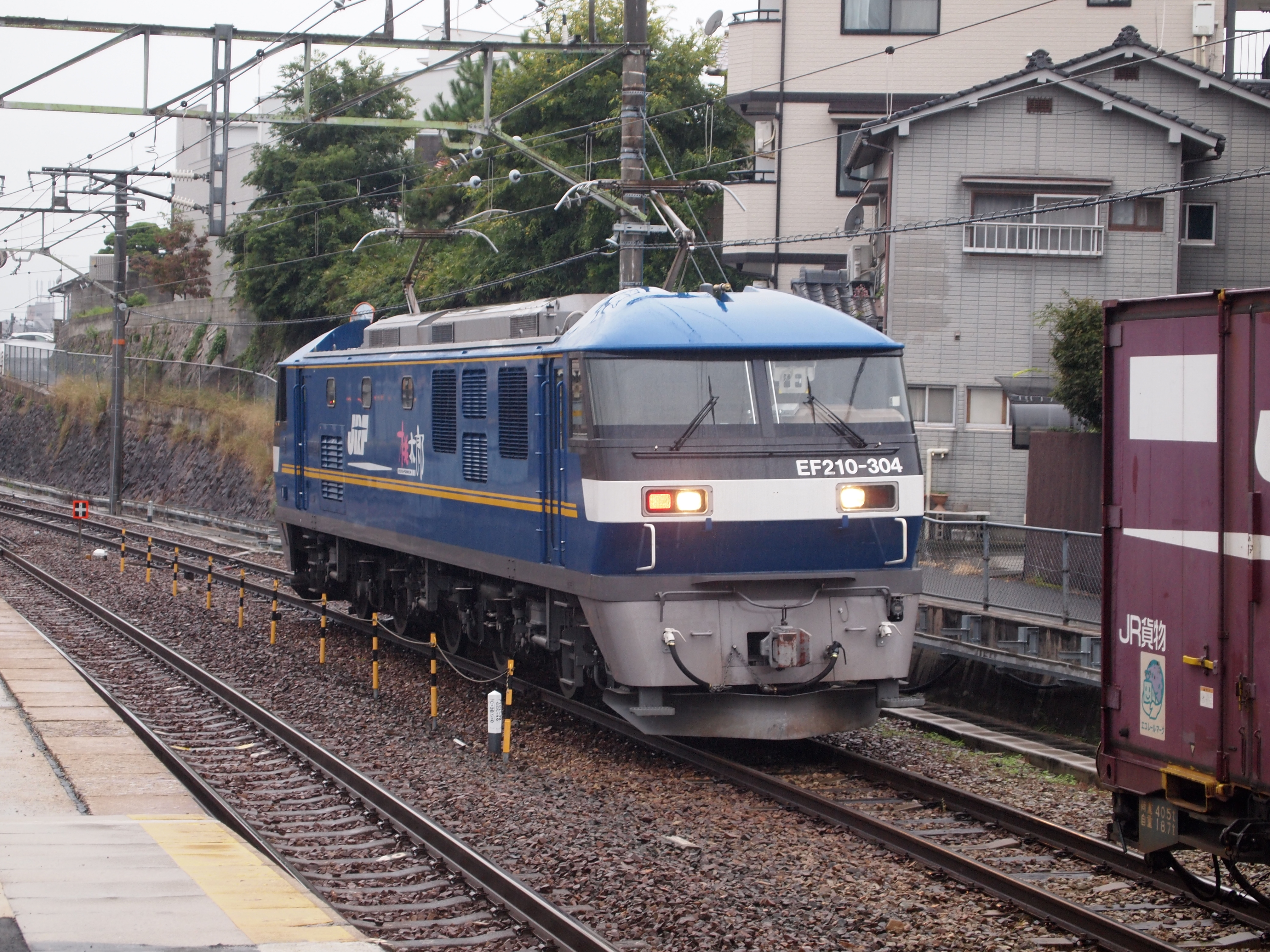 JR Freight Class EF210-300 electric locomotive EF210-304 uncoupled from the rear of a freight train it was assisting